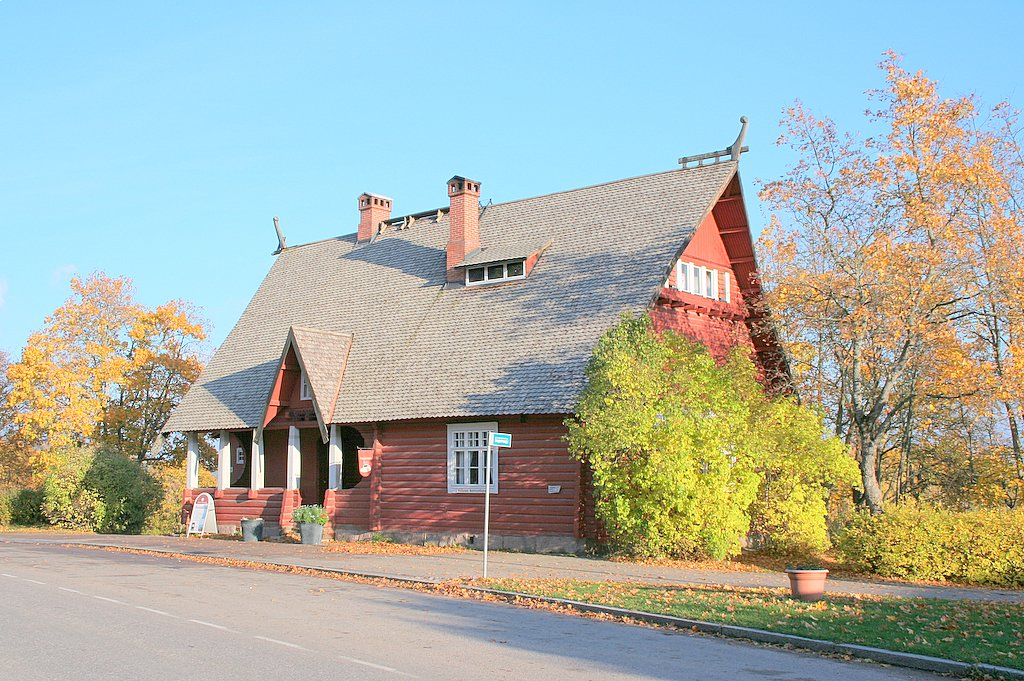 The old municipal house (municipal council 1902–1942) of the municipality of Hollola, Finland, in the old center of Hollola near the city of Lahti. Designed by architect Vilho Penttilä and built in 1902.